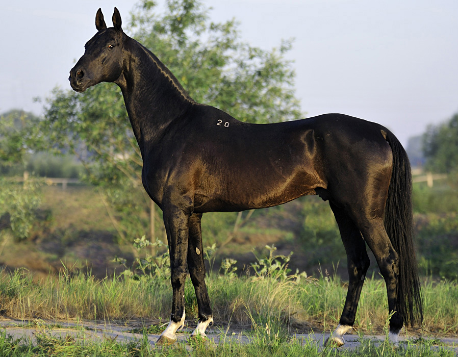 Akhal-teke stallion 1160 Garant 20, 1991 (1052 Gubalak 5 - 1872 Tsitata 4) line Gelishikli (Gundogar)